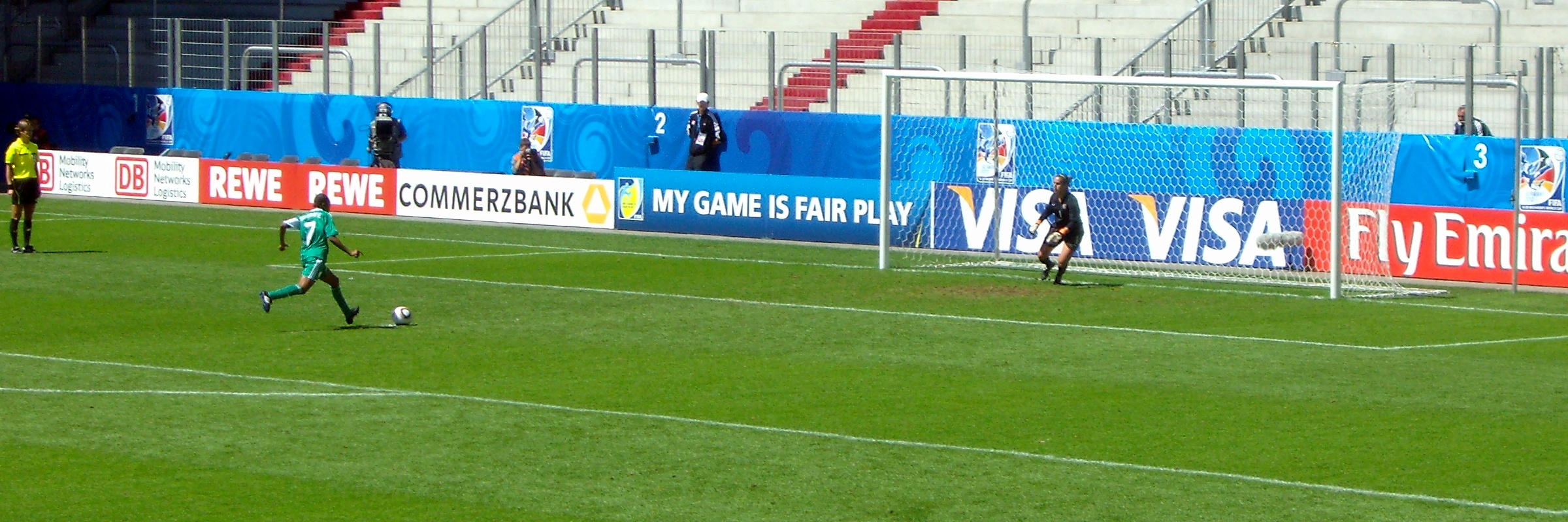 USA-Nigeria at 2010 FIFA U-20 Women's World Cup in Impuls Arena as “FIFA Women's World Cup Stadium Augsburg”: Esther Sunday (7) kicks from the penalty mark the second time after referee Alexandra Ihringova decided to repeat the kick. But goalkeeper Bianca Henninger (1) again moves too early, a third try is necessary.